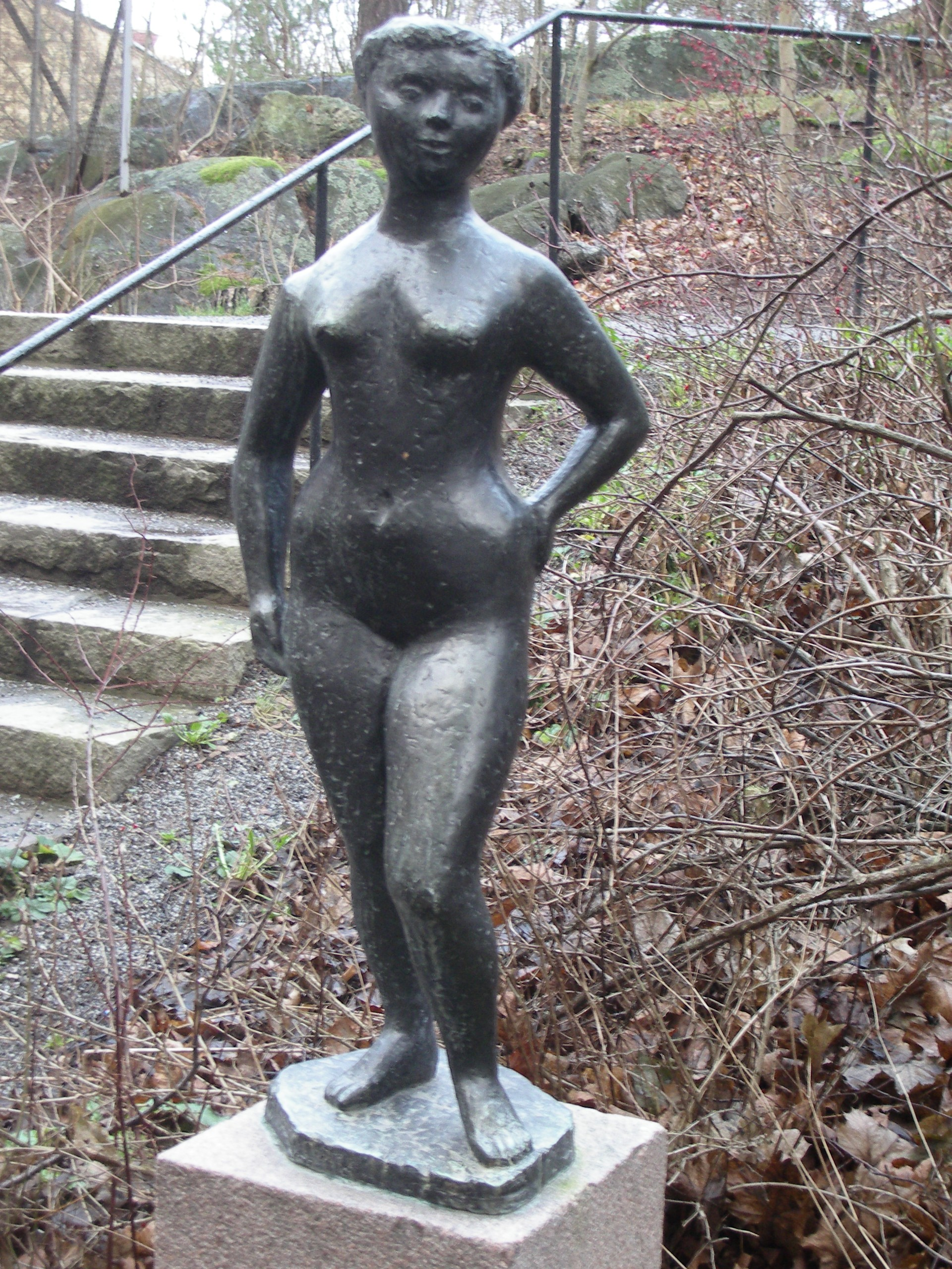 Palle Pernevi´s Petite femme, Västertorp, Stockholm, Sweden